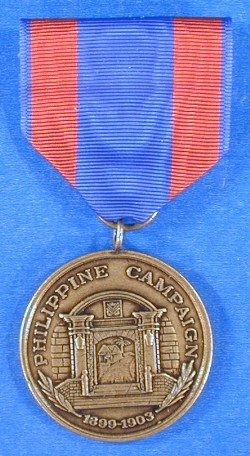 Navy Philippine Service Medal